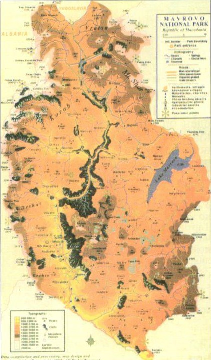 Map of the National Park Mavrovo in Macedonia